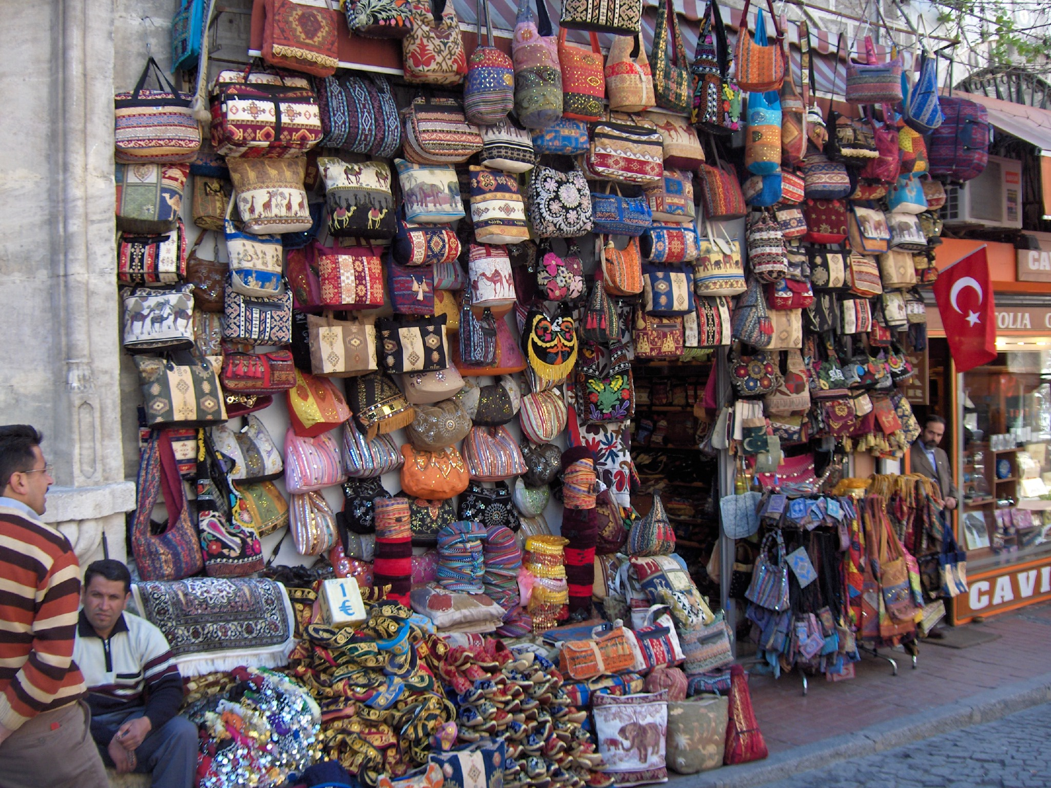 Shop at the entrance of the Grand Bazaar, Istanbul, Turkey